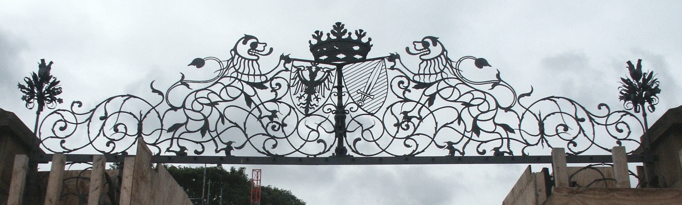 Description: Castle Borbeck, wrought-iron grille Capture date: 23. Jul. 2005 Photographer: Sir Gawain